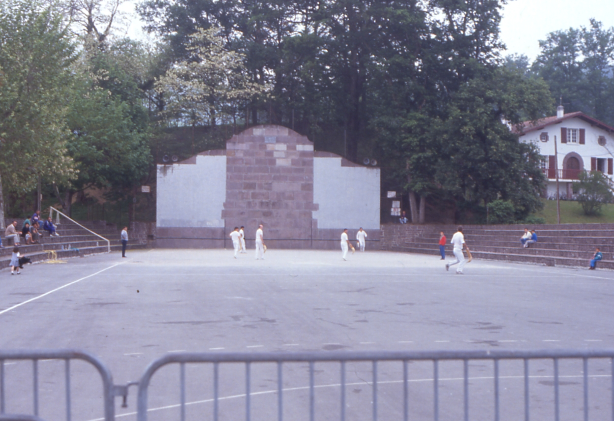 Pelota game in the in Navarra (Spain)